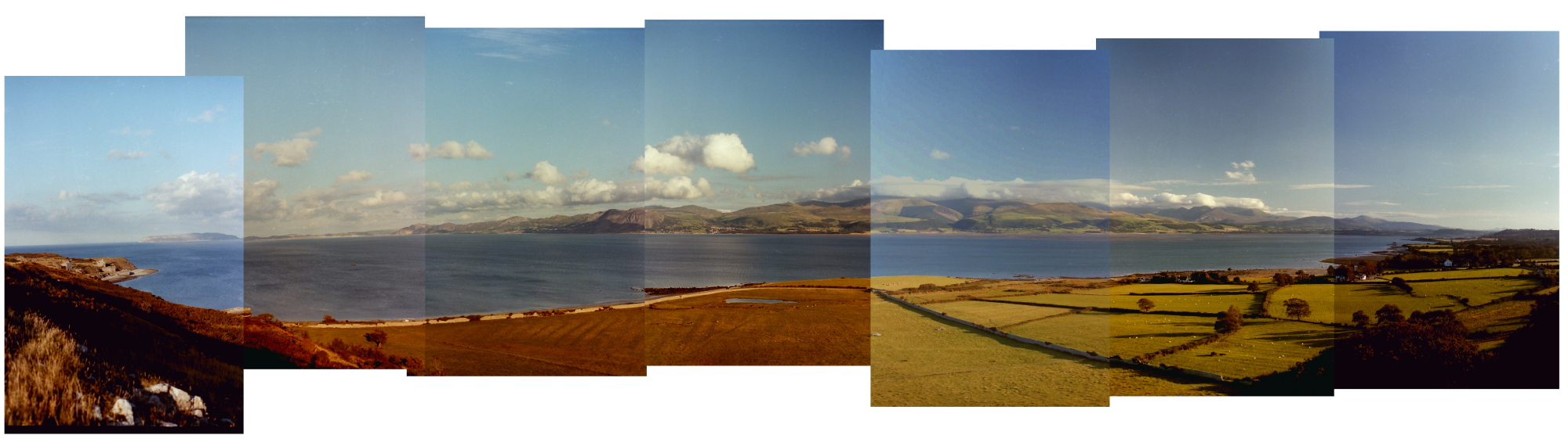 Panorama from Penmon old deer park, overlooking the Menai Straits and Snowdonia. Date of capture is approximate.